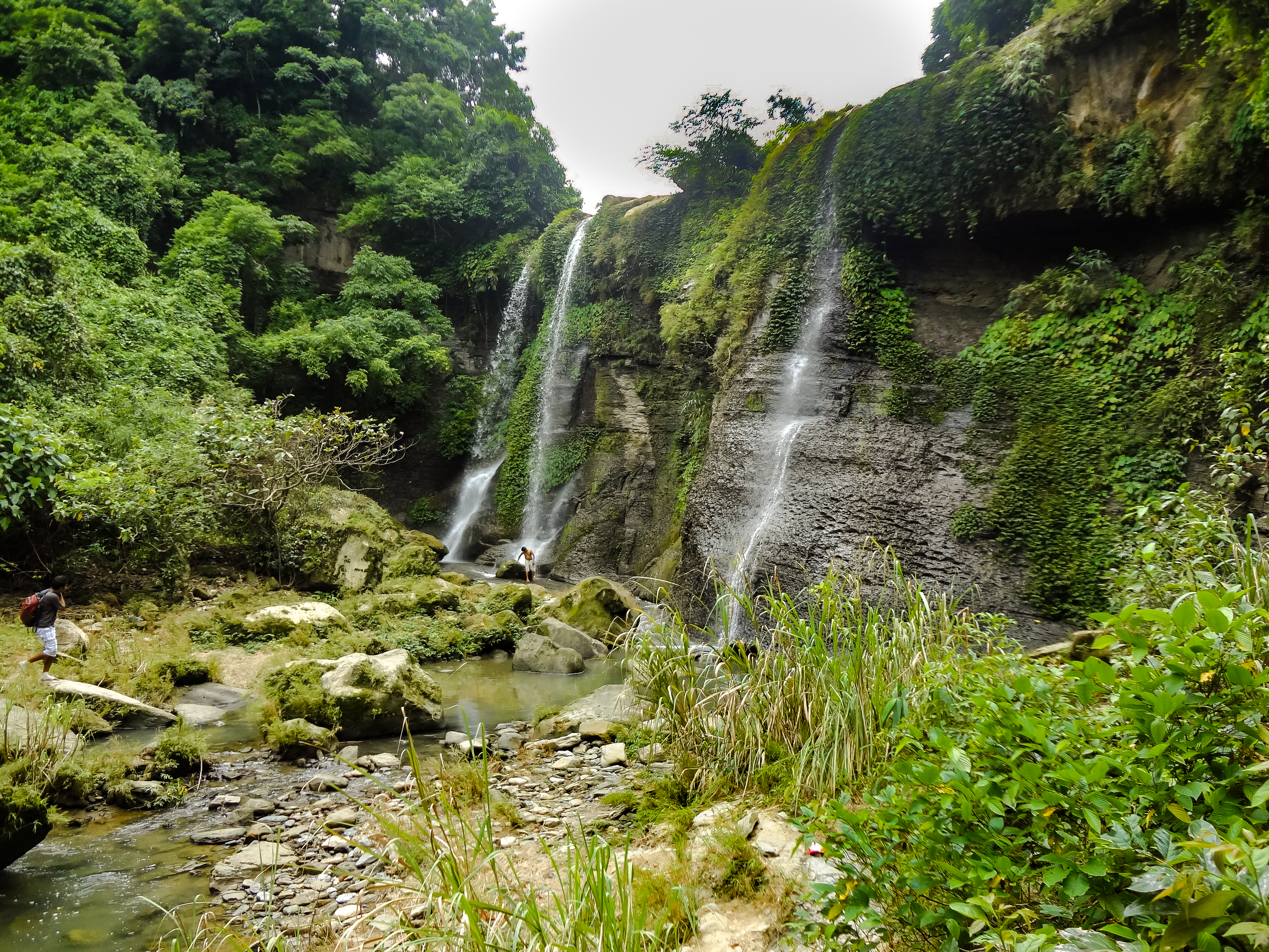 Shuptodhara Waterfall, Botanical Garden and Eco-Park, Sitakunda, Chittagong